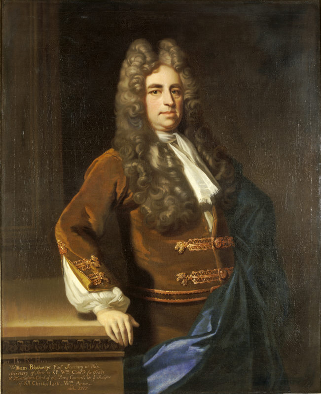 Portrait of colonial secretary William Blathwayt (1649-1717)